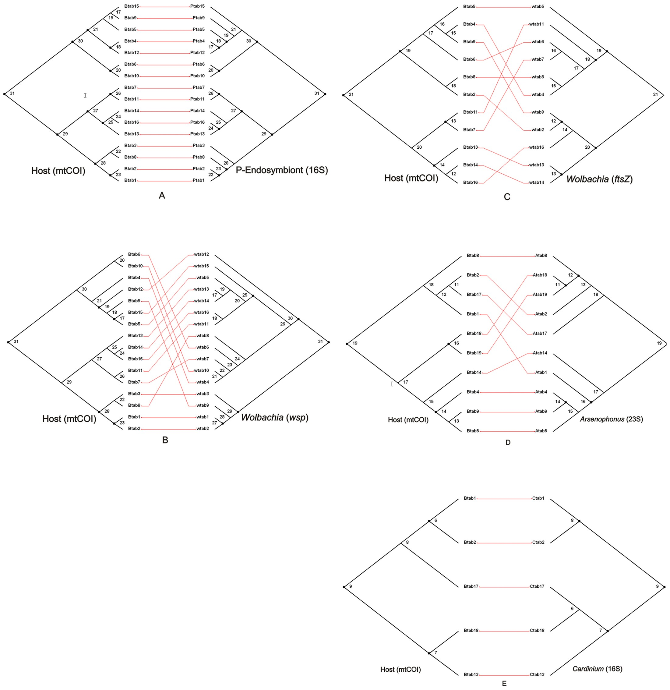 This image is a set of phylogenetic trees based on various sequencing data. It includes two Wolbachia genes and Cardinium 16S rRNA sequence data, along with a reference P-endosymbiont and Arsenophonus. Phylogenetic trees showing co-evolution are frequently used as evidence of vertical transmission.